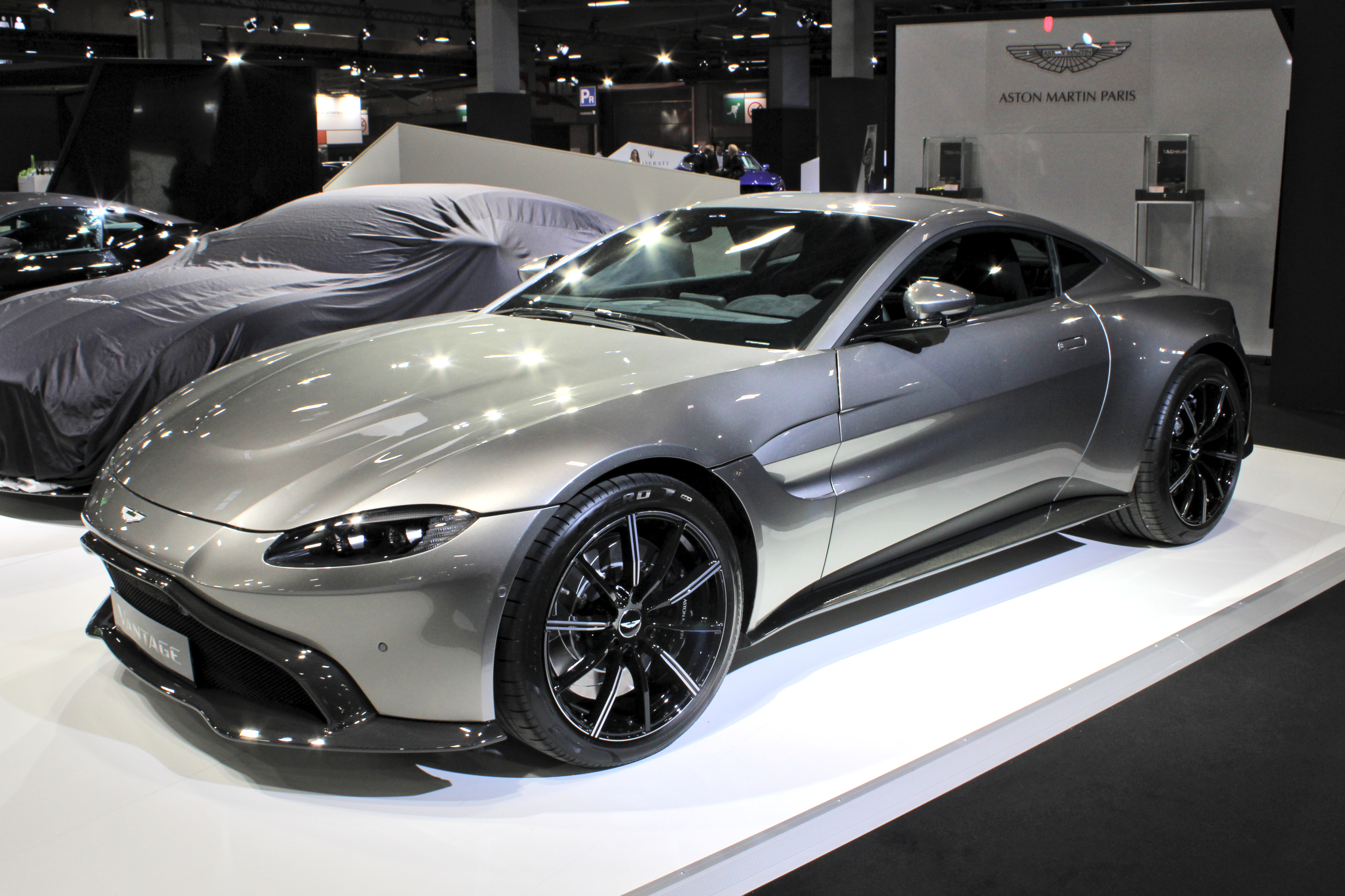 Aston Martin Vantage at Paris Motor Show 2018